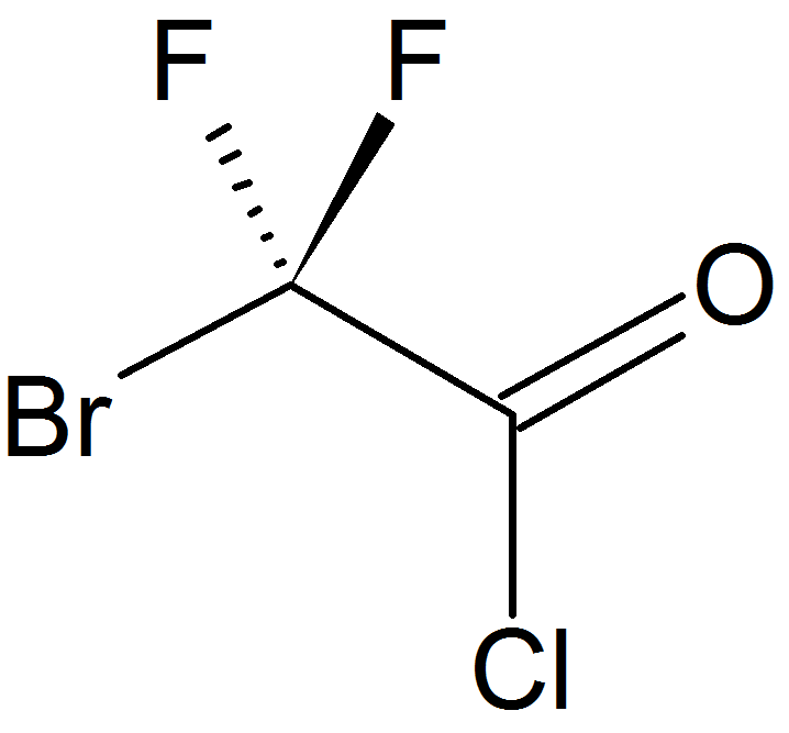 Structure of bromodifluoroacetyl chloride